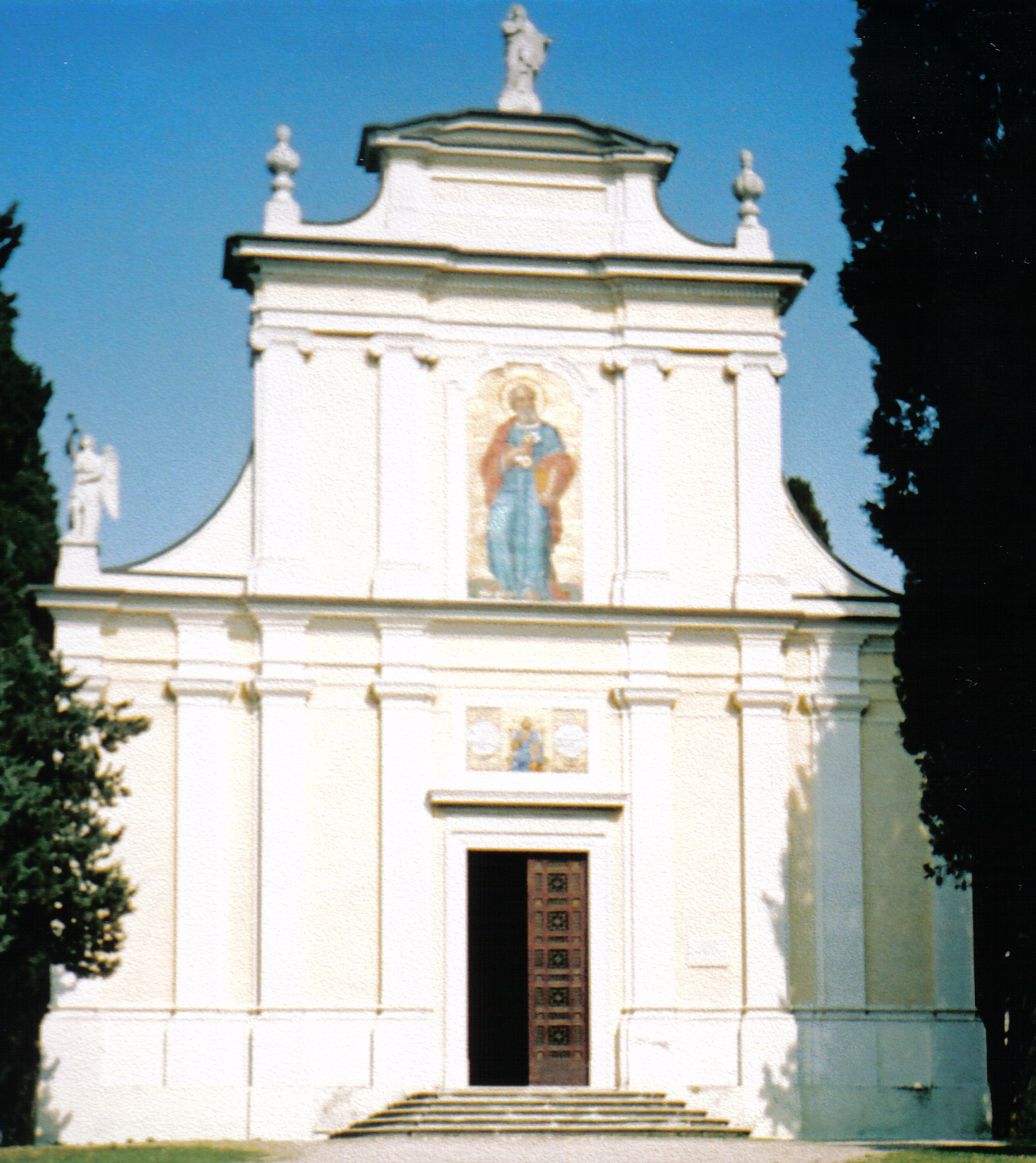 Ossario di Solferino (Ossuary Chapel) in Solferino, Italy, birthplace of the Red Cross Source: picture taken by User:UW in April 2005 License